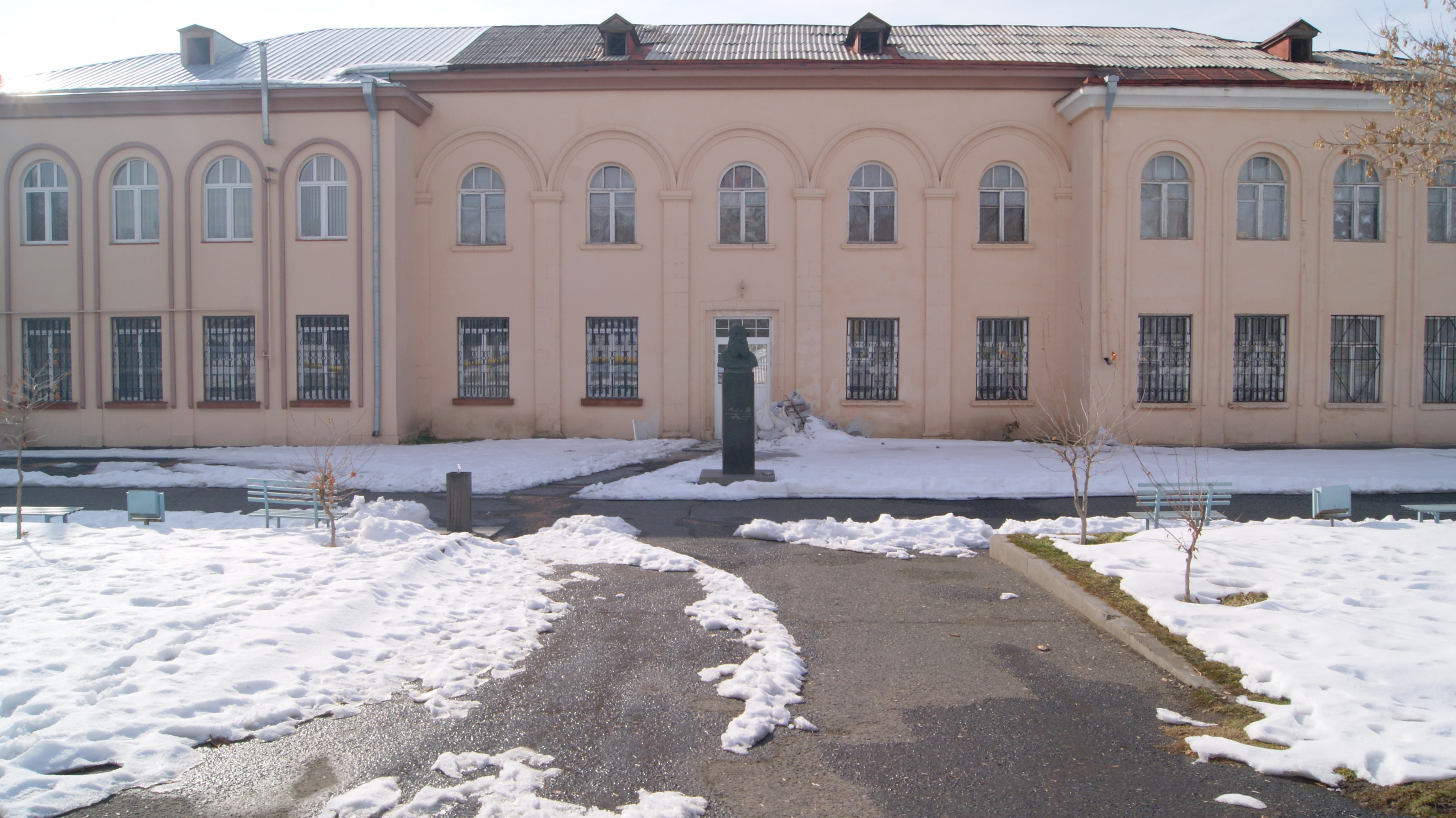 Ghevond Alishan school N 95 in Nubarashen